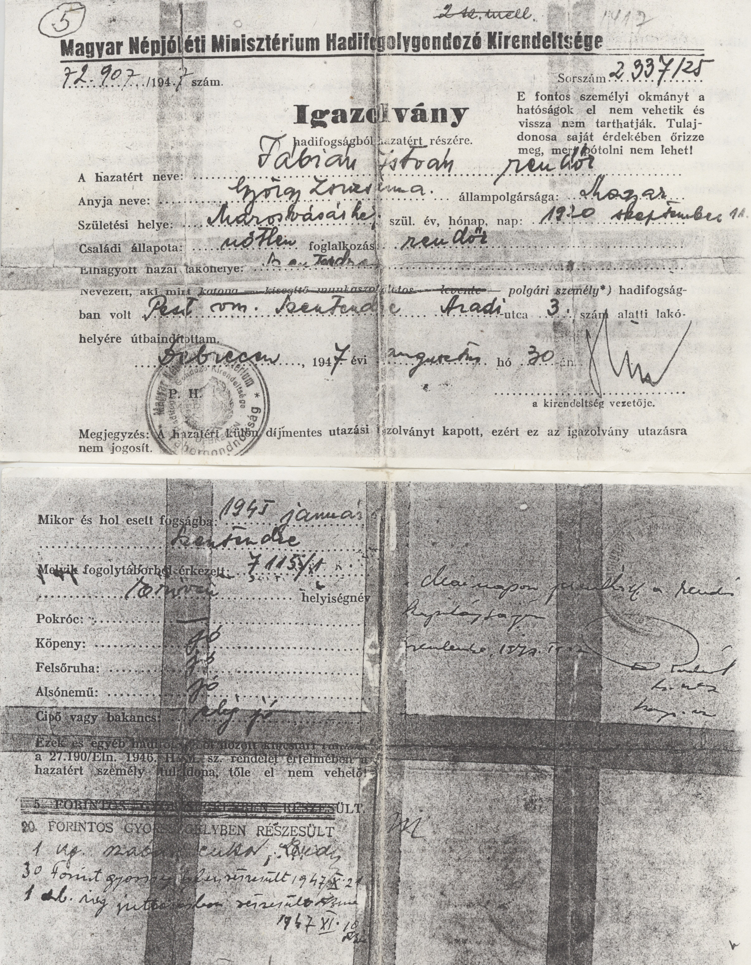 Prisoner of war card they returned home for him from the captivity. 1947